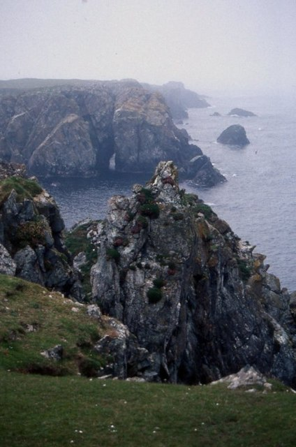 Balta Isle Looking north along the east cliffs of Balta from Muckle Head.